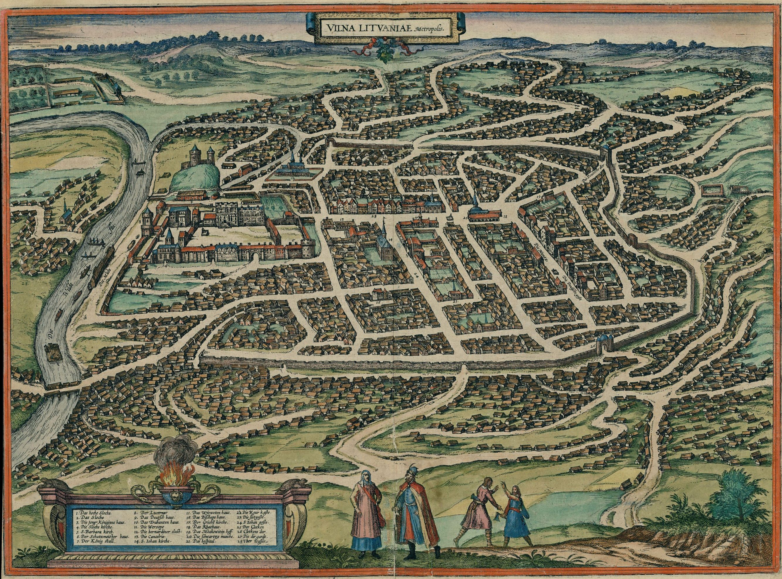 Map of Vilnius in 1576